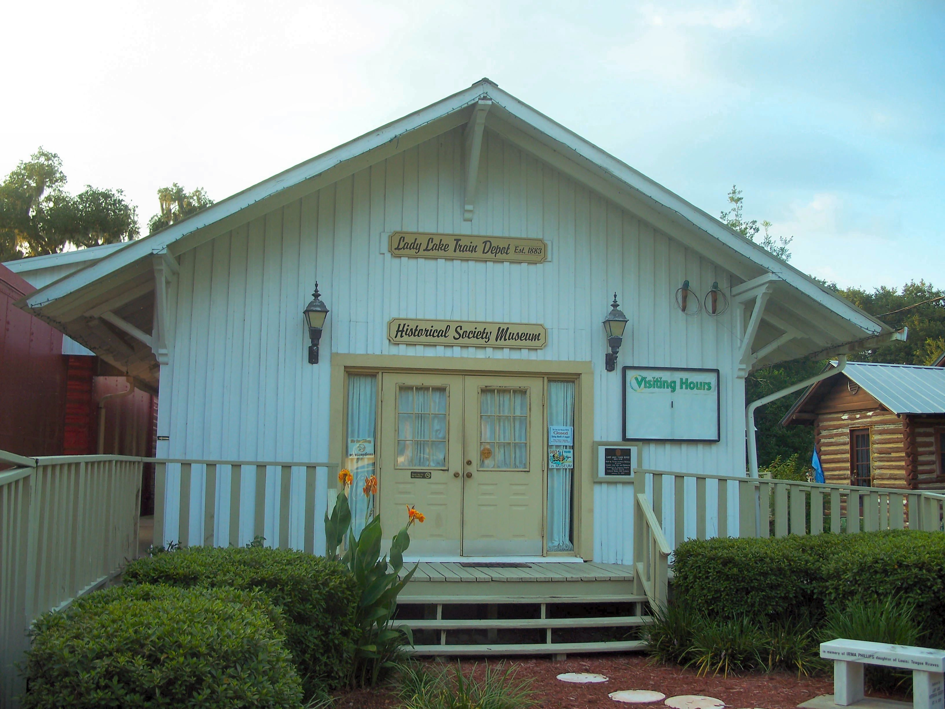 Lady Lake, Florida: Old railroad depot, next to the local Chamber of Commerce building. It is now the area Historical Society Museum.